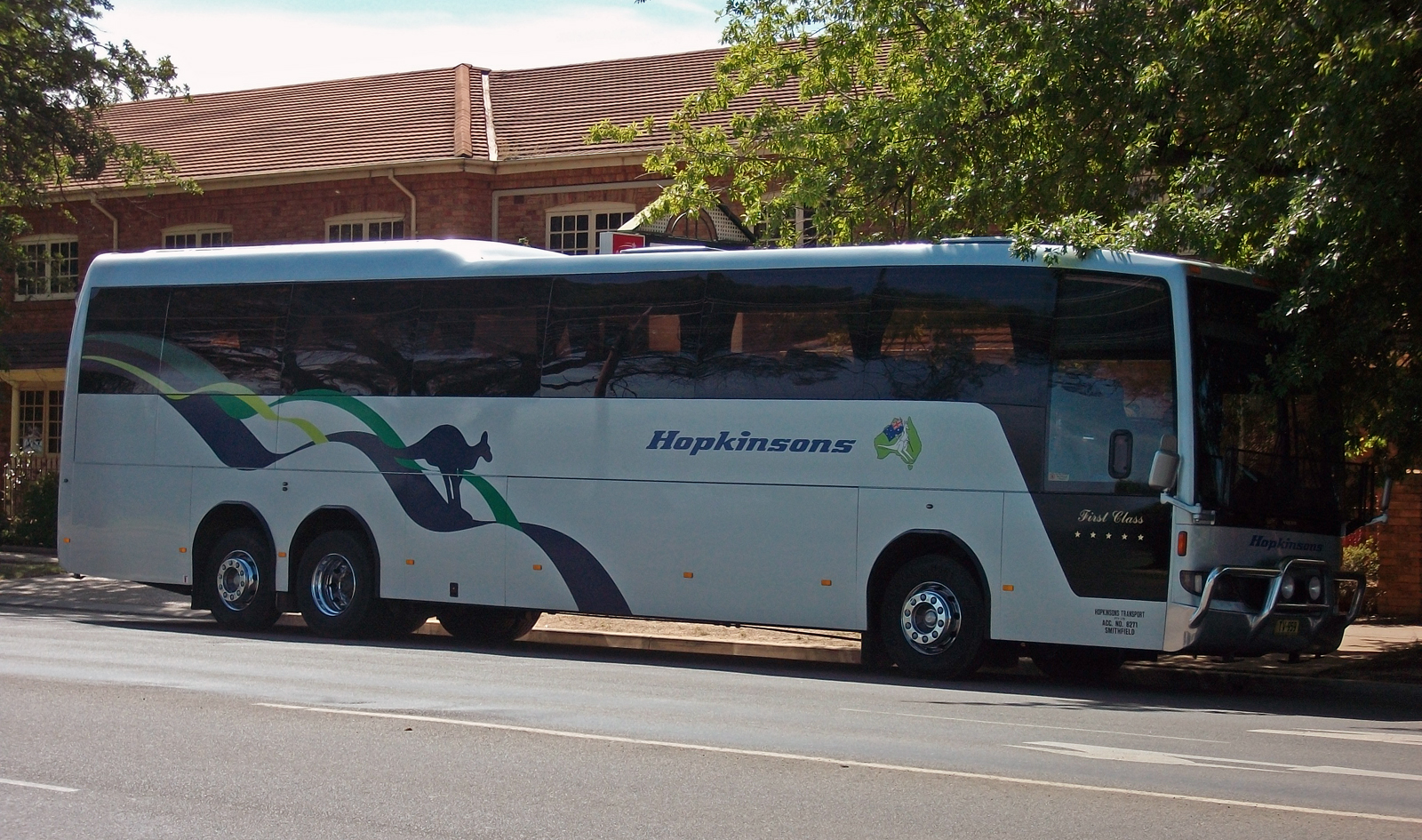 Hopkinsons (coach company) - Autobus bodied Volvo B12B (13.6m chassis).